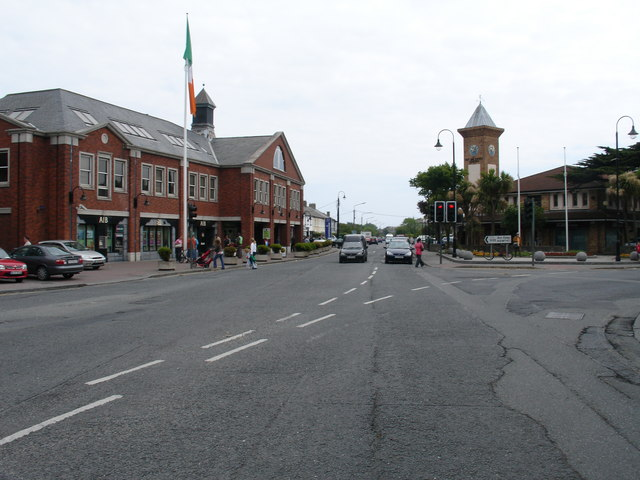 Sutton Cross So-called because of the diamond-shaped road junction. The road directly ahead is the R105, which goes to Howth Harbour. The road off to the right is ALSO the R105, as the road encircles the peninsula.